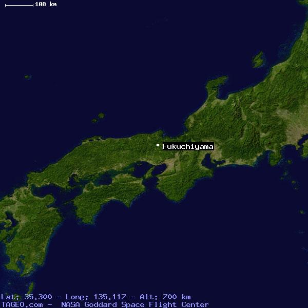 Satalitephoto of Fukuchiyama, Japan. Alt: 700 km